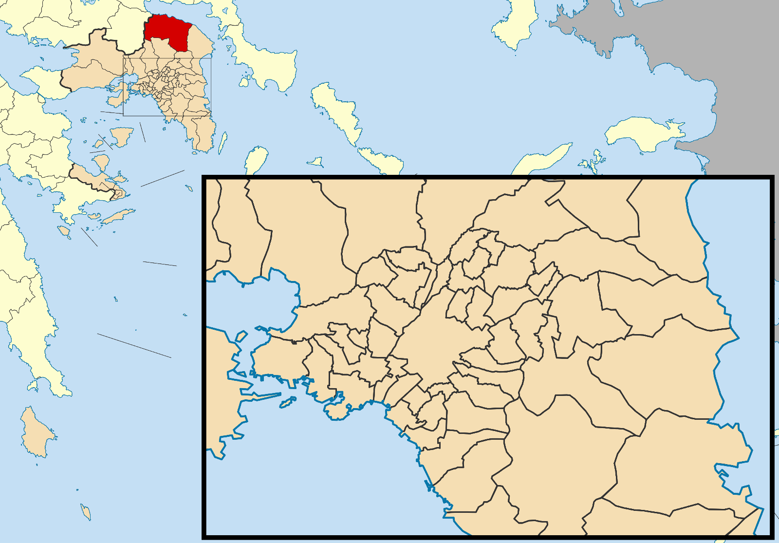 Locator map for Oropos municipality in Greek region Attica (2011)